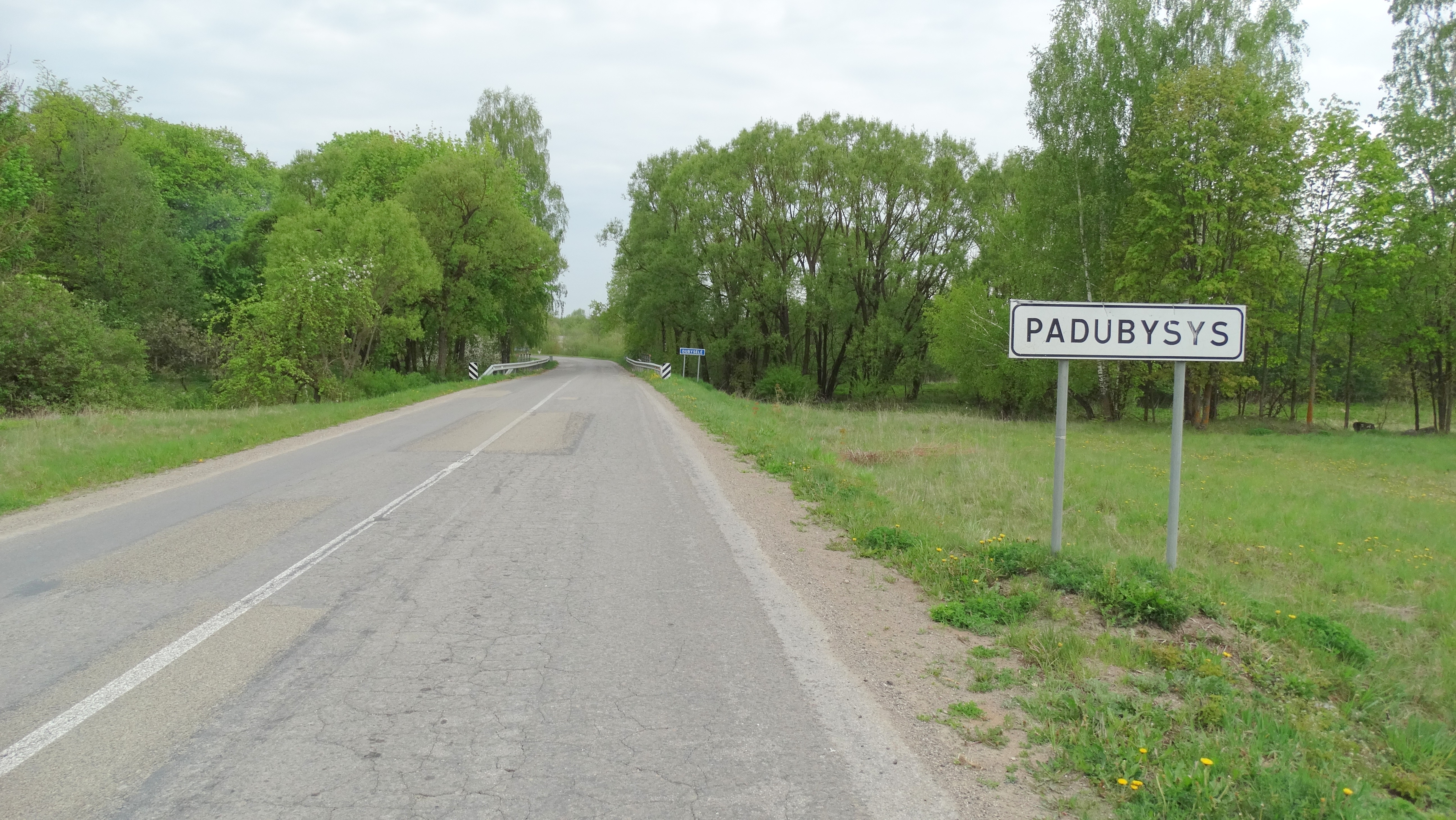 Padubysys, Pakruojis district, Lithuania